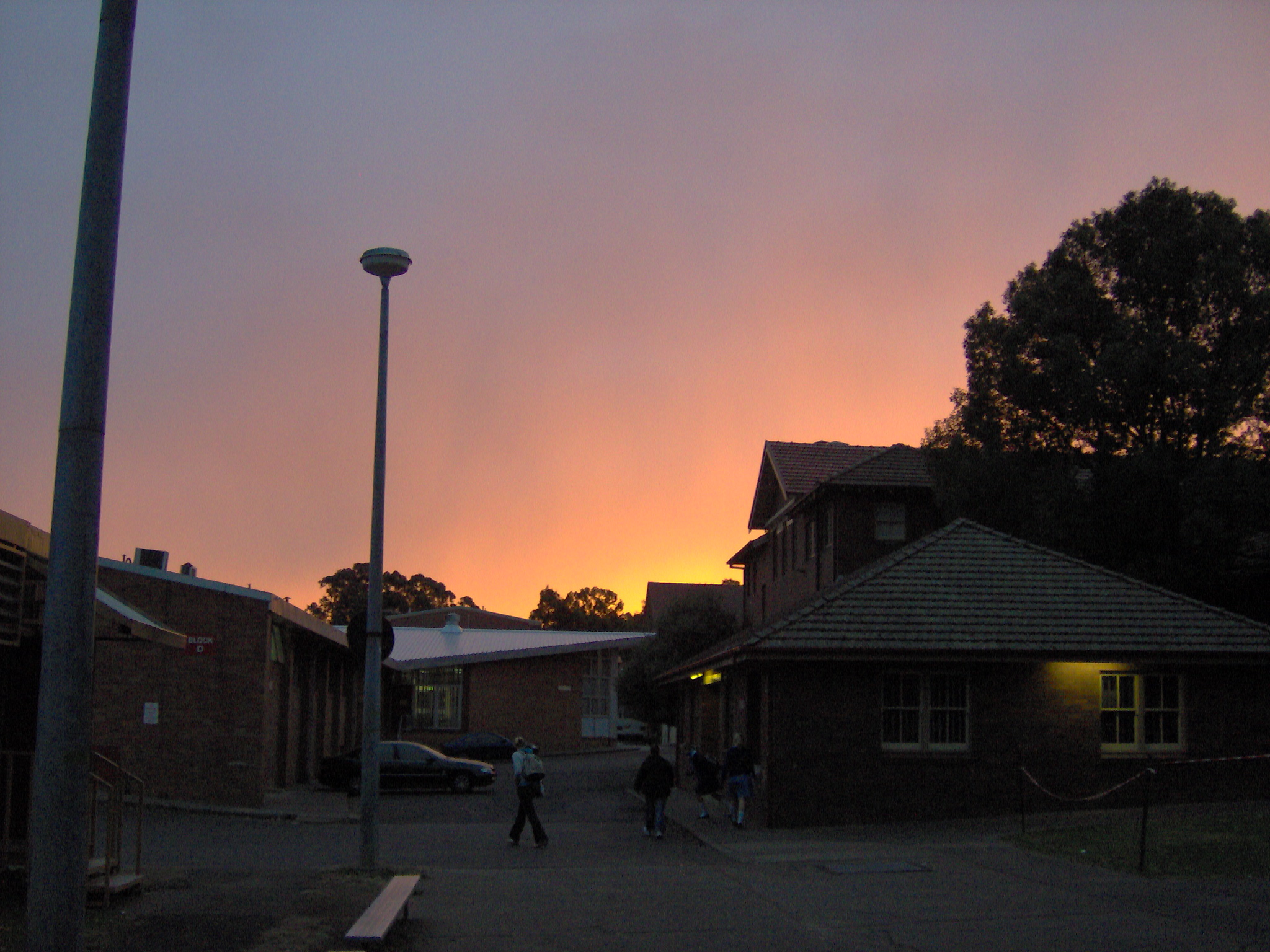 Hurlstone Agricultural High School "Boarding School" in the sunset. "Block D" is the Kitchen and the building adjoining is the Dining Hall.